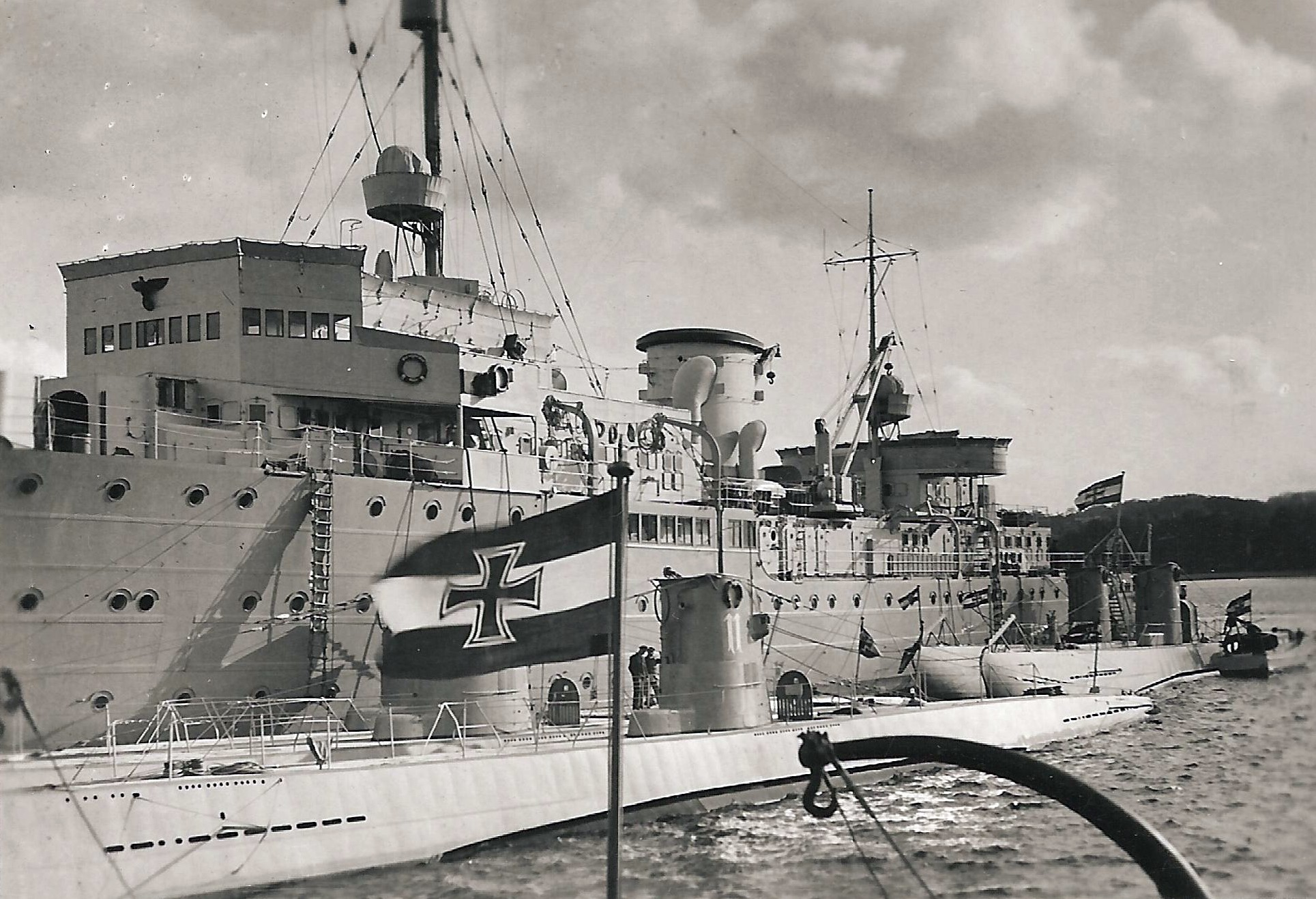 Image from german wikipedia Saar and the submarines U 8, U 9, U 10 and U 11 (1936)